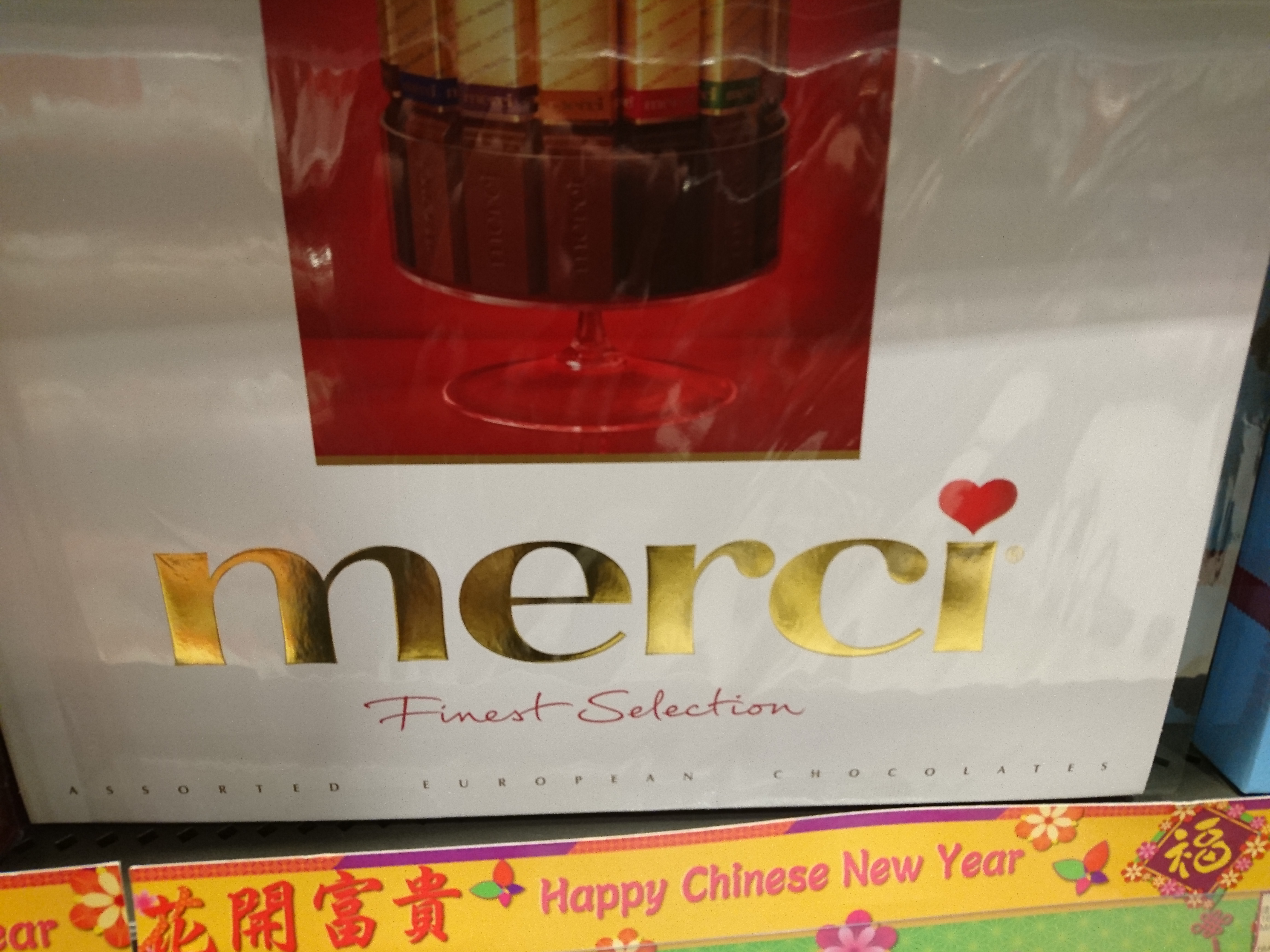 Box of Merci Chocolate